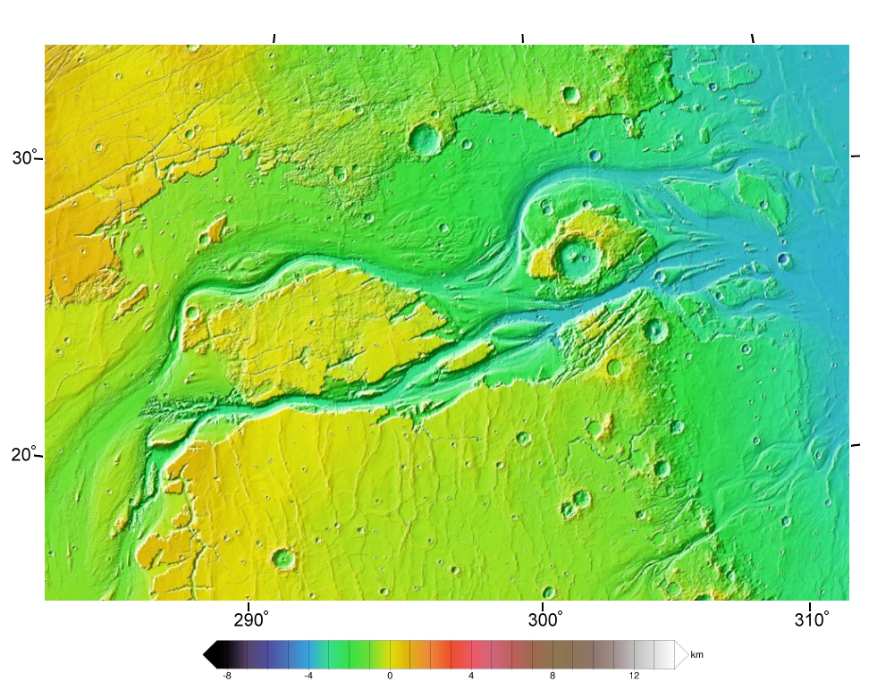 Topography map of Kasei Valles, Mars.